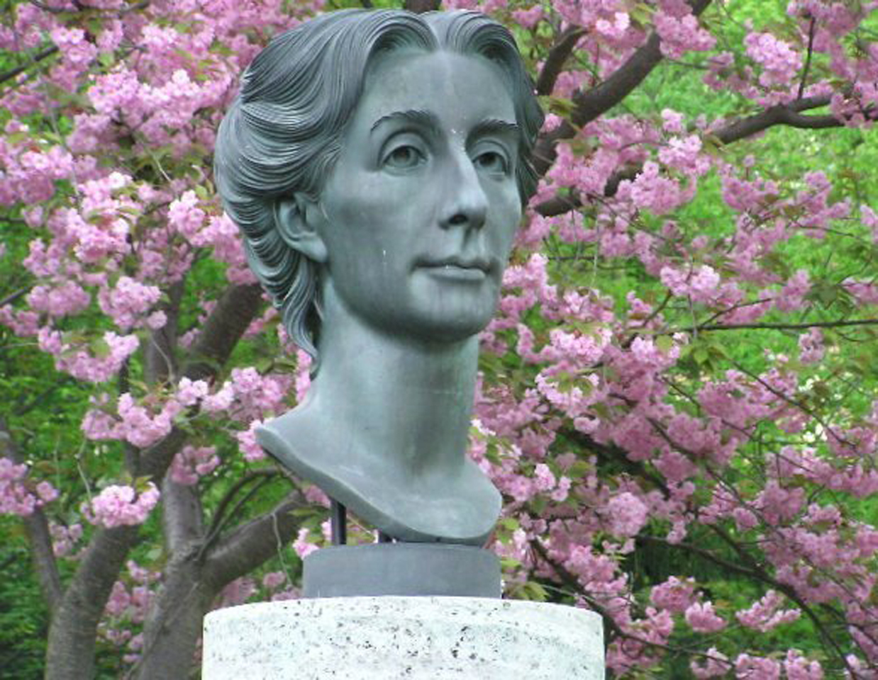 Bust of Cosima Wagner, created by Arno Breker, located near the Festspielhaus in Bayreuth, Germany.